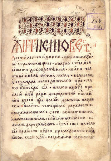 Alexandria Codex first page SS. Cyril and St. Methodius National Library Bulgaria